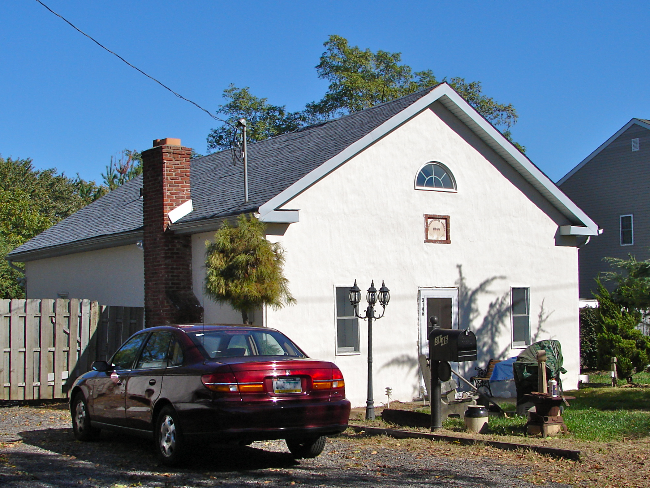 Mechanicsville School in Philadelphia, on the NRHP since December 1, 1986. At the 90 degree curve on Mechanicsville Road in the Parkwood neighborhood of NE Philly. Now used as a home in a nice middle-class neighborhood of new homes, and fits right in. Built 1866 according to the stone under the center window.